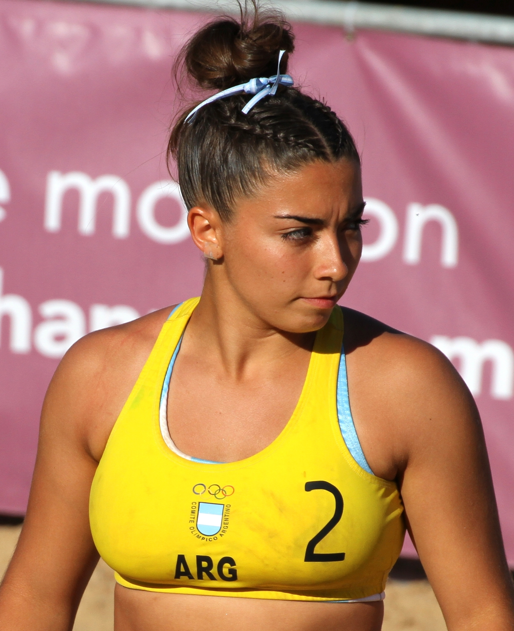 Beach handball at the 2018 Summer Youth Olympics at 9 October 2018 – Girls Preliminary Round Group B – Argentina-Hing Kong 2:0